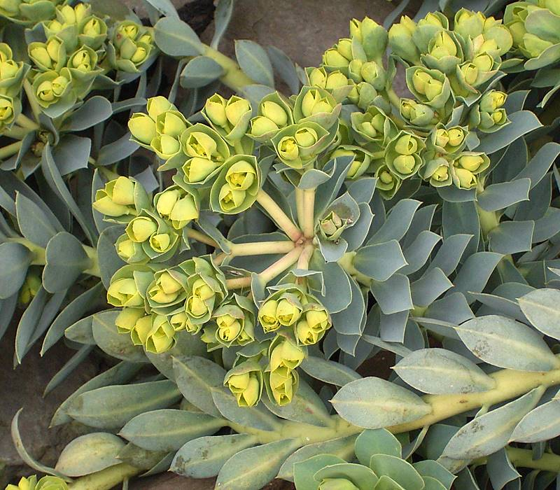 Euphorbia myrsinites